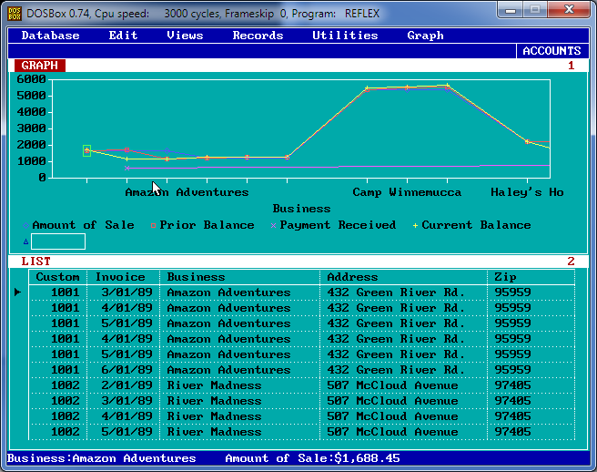 A screenshot of an old DOS program from back in the 1980s. I haven't found a single screenshot anywhere on the internet so I fired it up and took one to immortalise it.